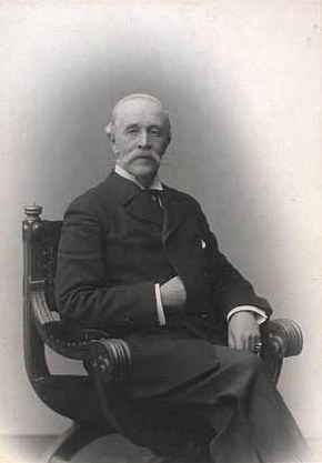 Carl Christian von Krogh (1832-1910), Danish army officer